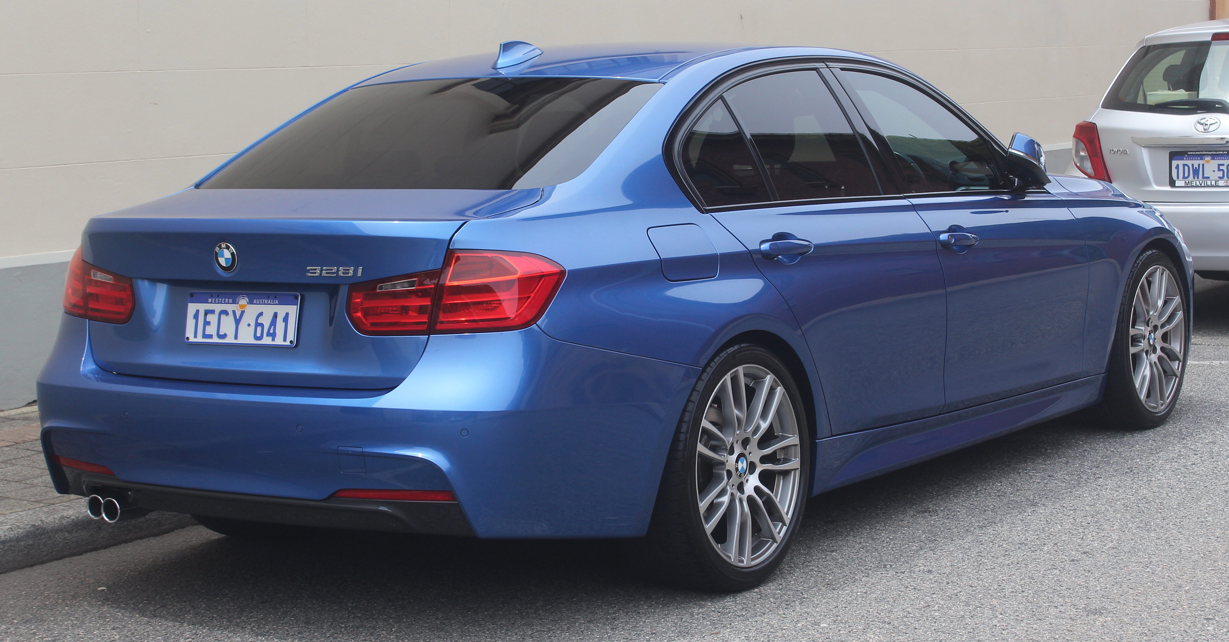 2013 BMW 328i (F30) M Sport sedan. Photographed in Fremantle, Western Australia, Australia.